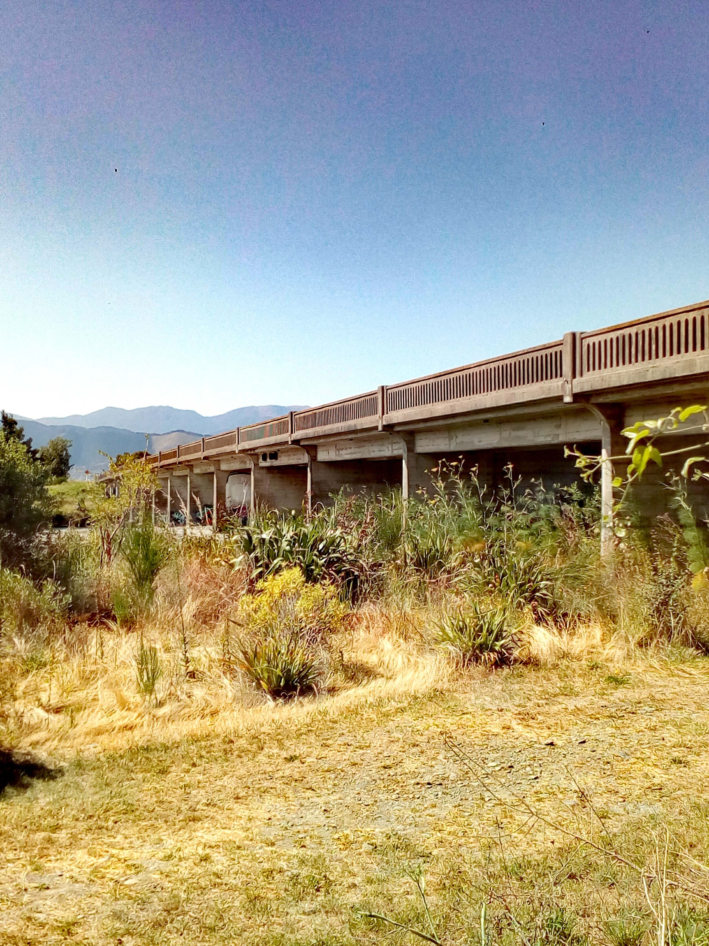 Photo of the bridge taken from the recreational reserve